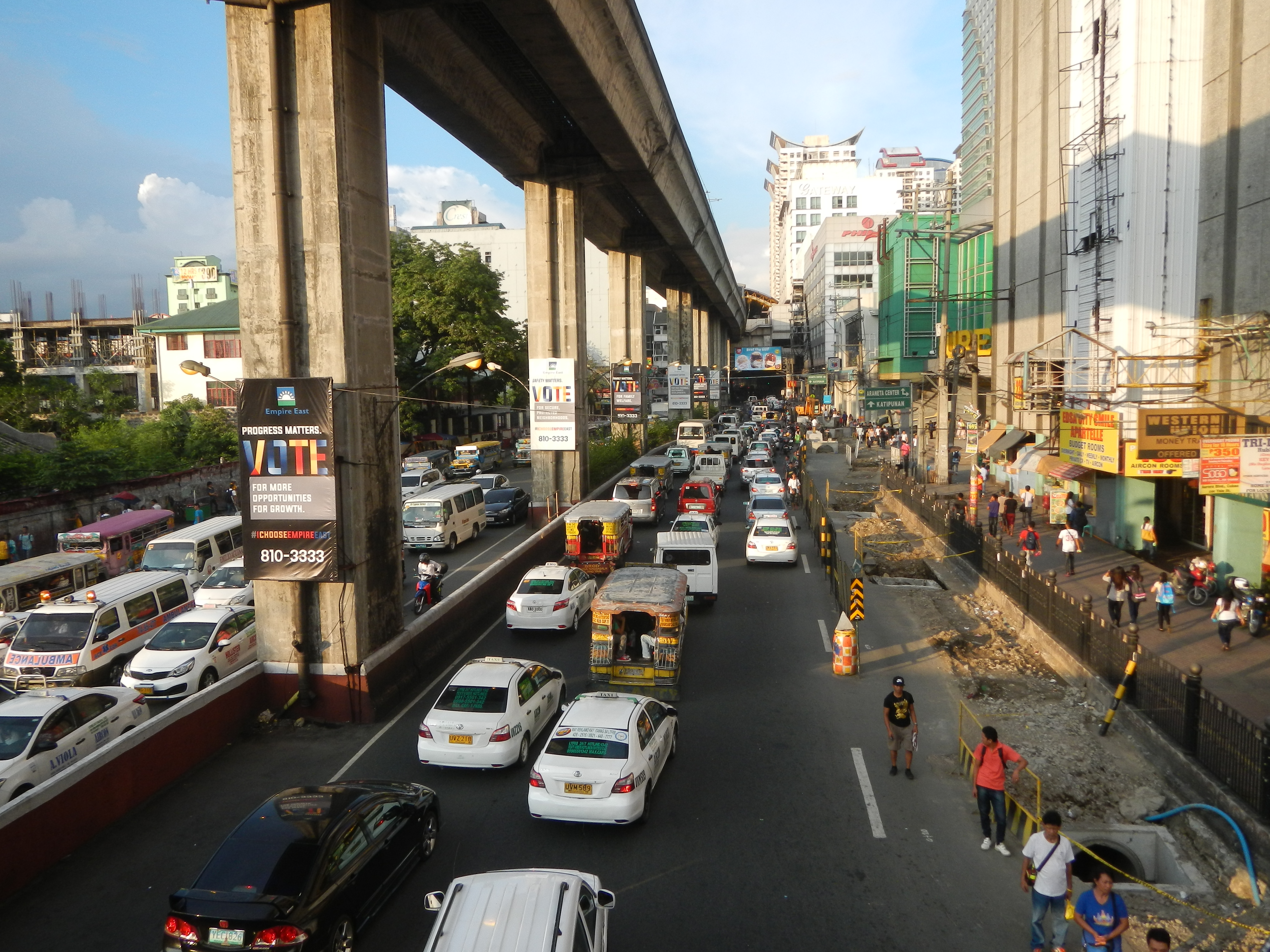 Vivaldi Residences Cubao, EDSA (road) and Aurora Boulevard, Quezon City upon the Araneta Center–Cubao MRT Station, Araneta Center–Cubao LRT Station, MRT-3 Track segments from the Araneta Center-Cubao Station and from the Araneta Center–Cubao LRT Station upon the Pedestrian Overpass Bridge (EDSA-Aurora Boulevard, Cubao, Quezon City) Quezon City.